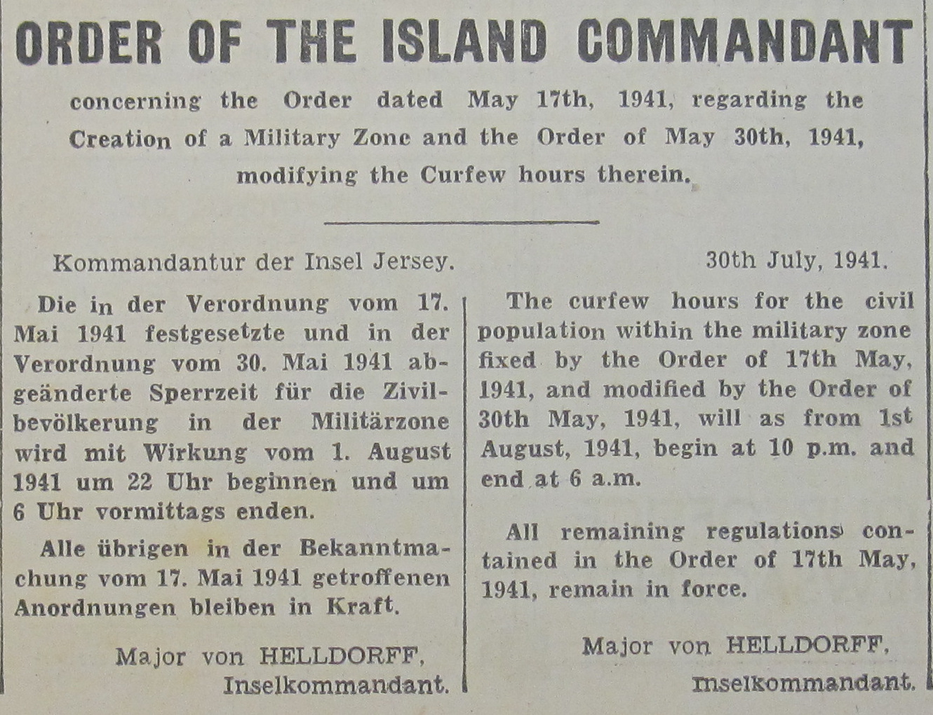 1941: German decree/notice from Occupation of Jersey This image is in the public domain according to German copyright law because it is part of a statute, ordinance, official decree or judgment (official work) issued by a German federal or state authority or court (§ 5 Abs.1 UrhG).